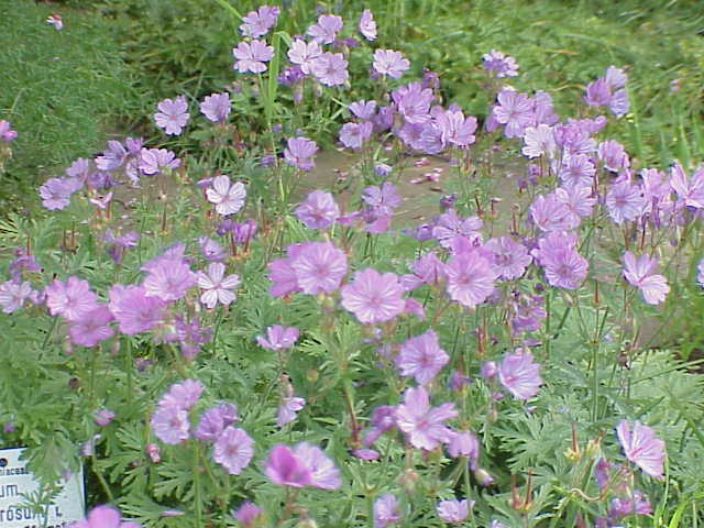 Species: Geranium tuberosum Family: Geraniaceae Image No. 2